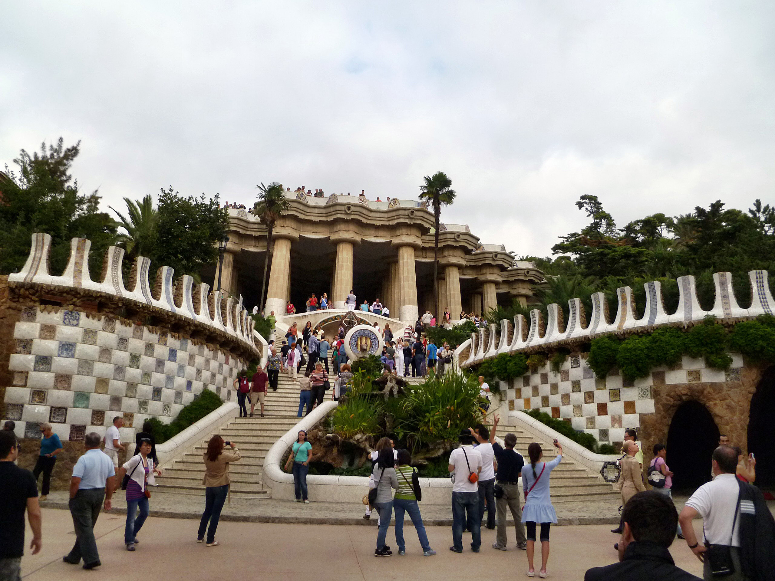 Main stairs at the entrance of the Parc Güell, Barcelona, Spain